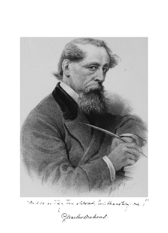 CHARLES DICKENS From a scarce Lithograph by SOL. EYTINGE, Junr.